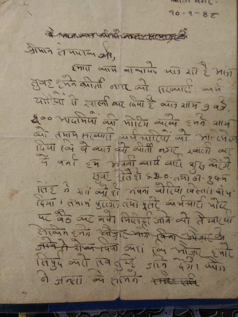 Mentions surrender by the State Police.Army and Administration of the Tehri Riyasat on 10 January 1948 and establishment of Azad Panchayat in Kirti Nagar and adjoining villages. Comrade Nagendra Saklani was killed while defending the Kirti Nagar Azad Panchayat on 11 January 1948. Courtesy personal archives of Sachhidanand Painuli